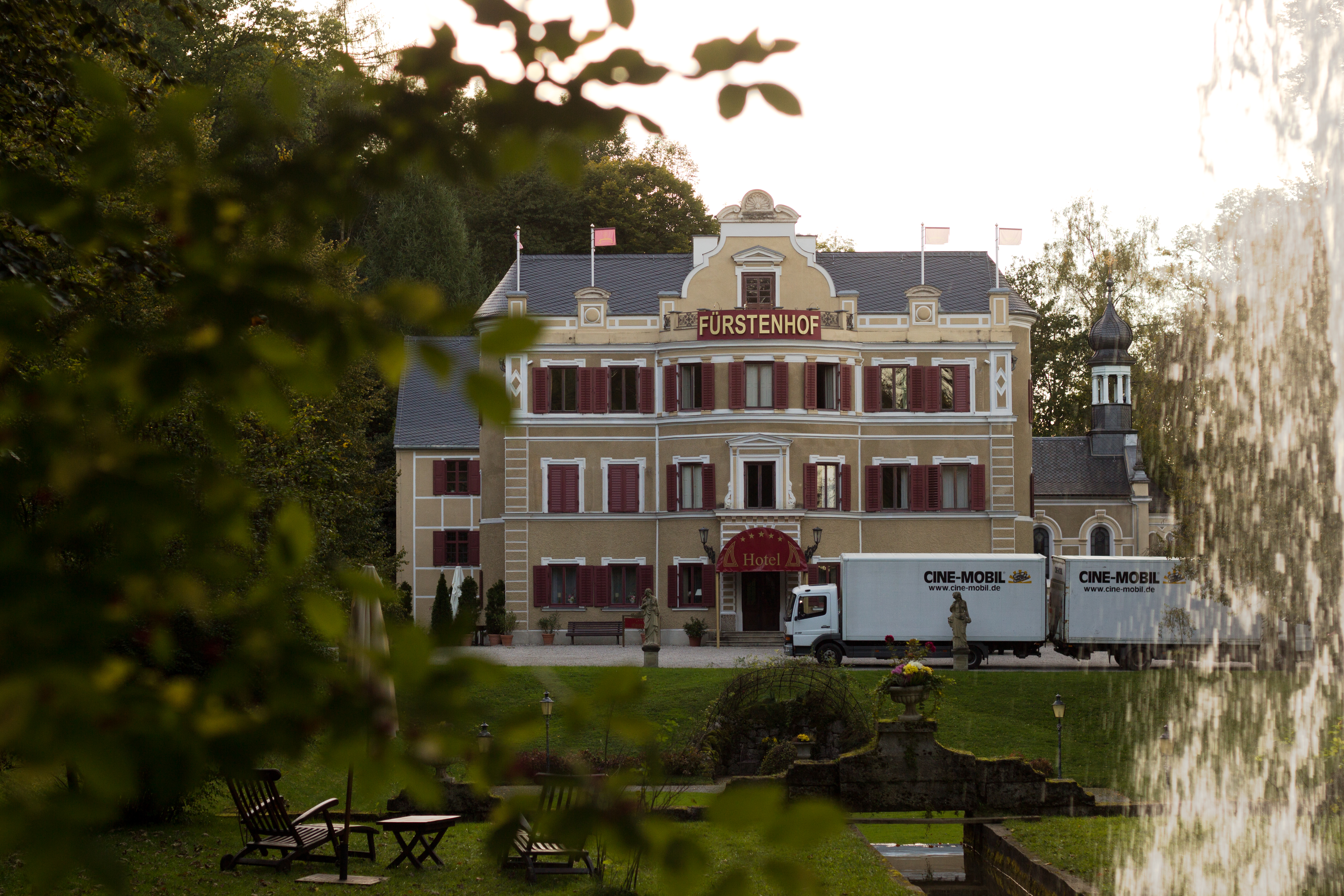 The castle in Vagen with decoration for the shooting of the series "Sturm der Liebe"This is a photograph of an architectural monument.